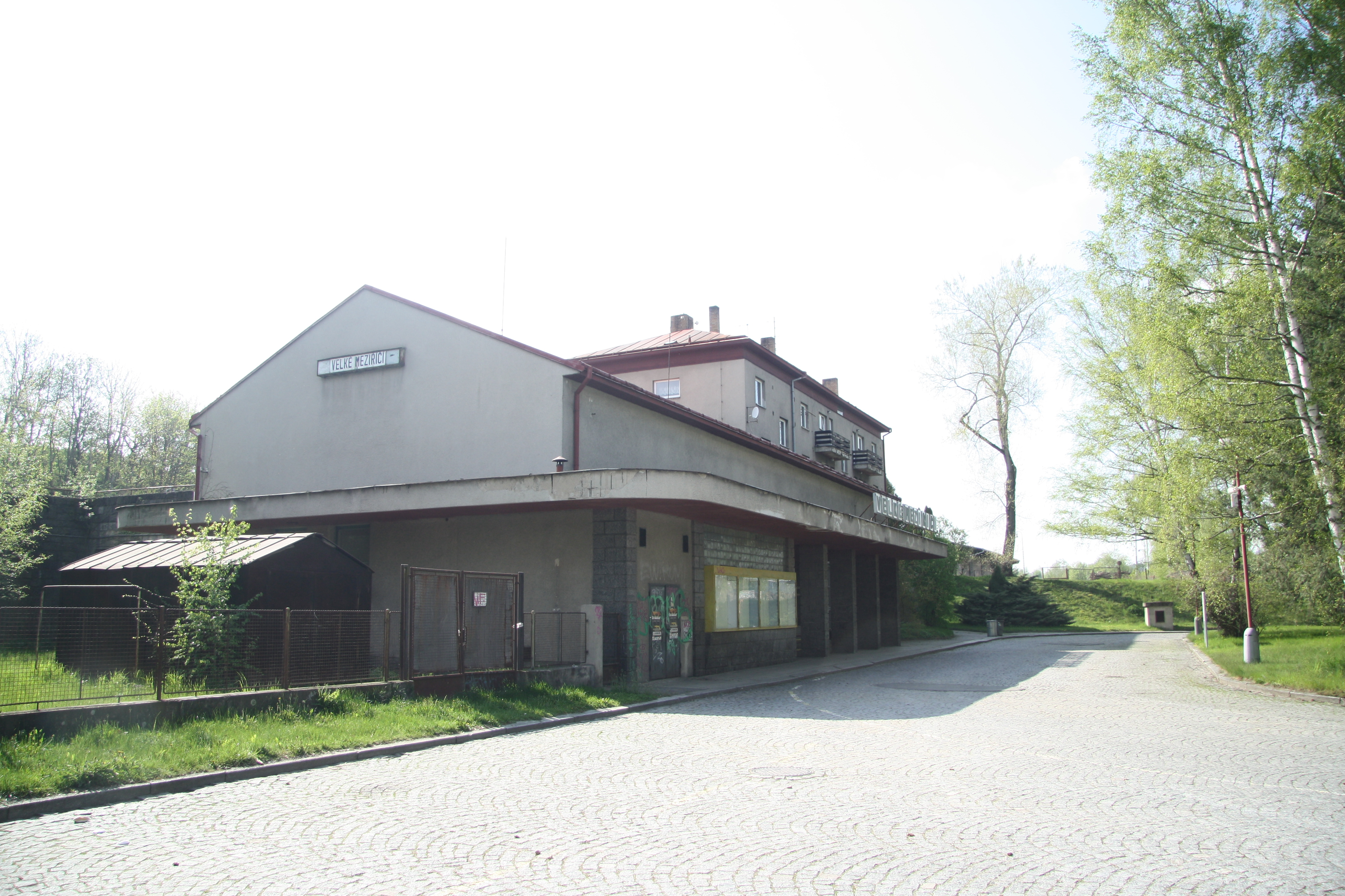 Overview of rail station Velké Meziříčí in Velké Meziříčí, Žďár nad Sázavou District.